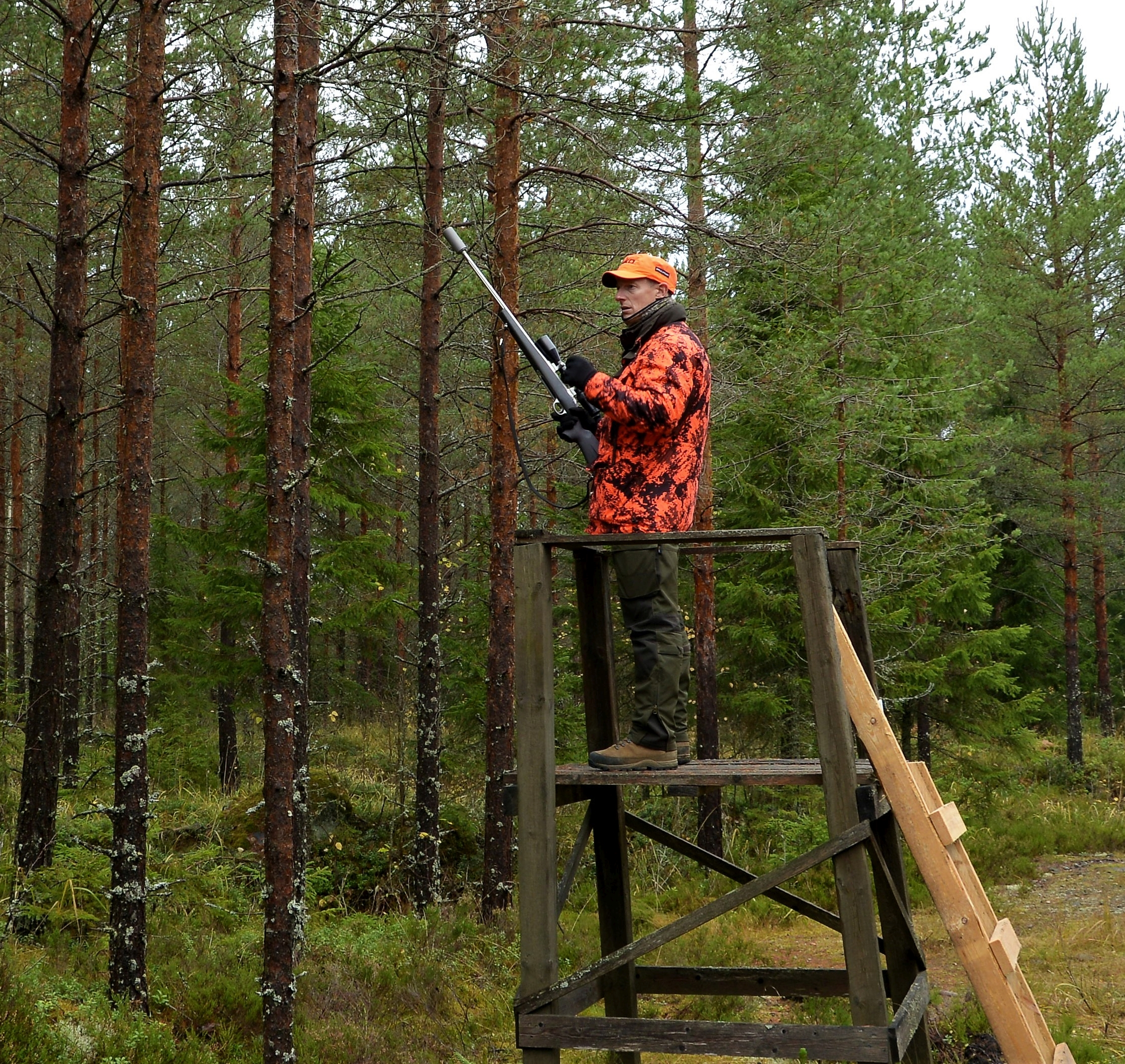 cropped - Paul Childerley on a driven hunt in Finland